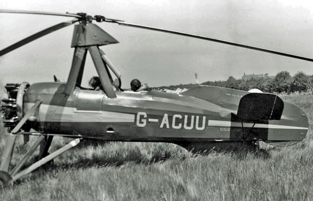 Avro-built Cierva C.30A Autogiro taxying at Rearsby Aerodrome, Leicestershire